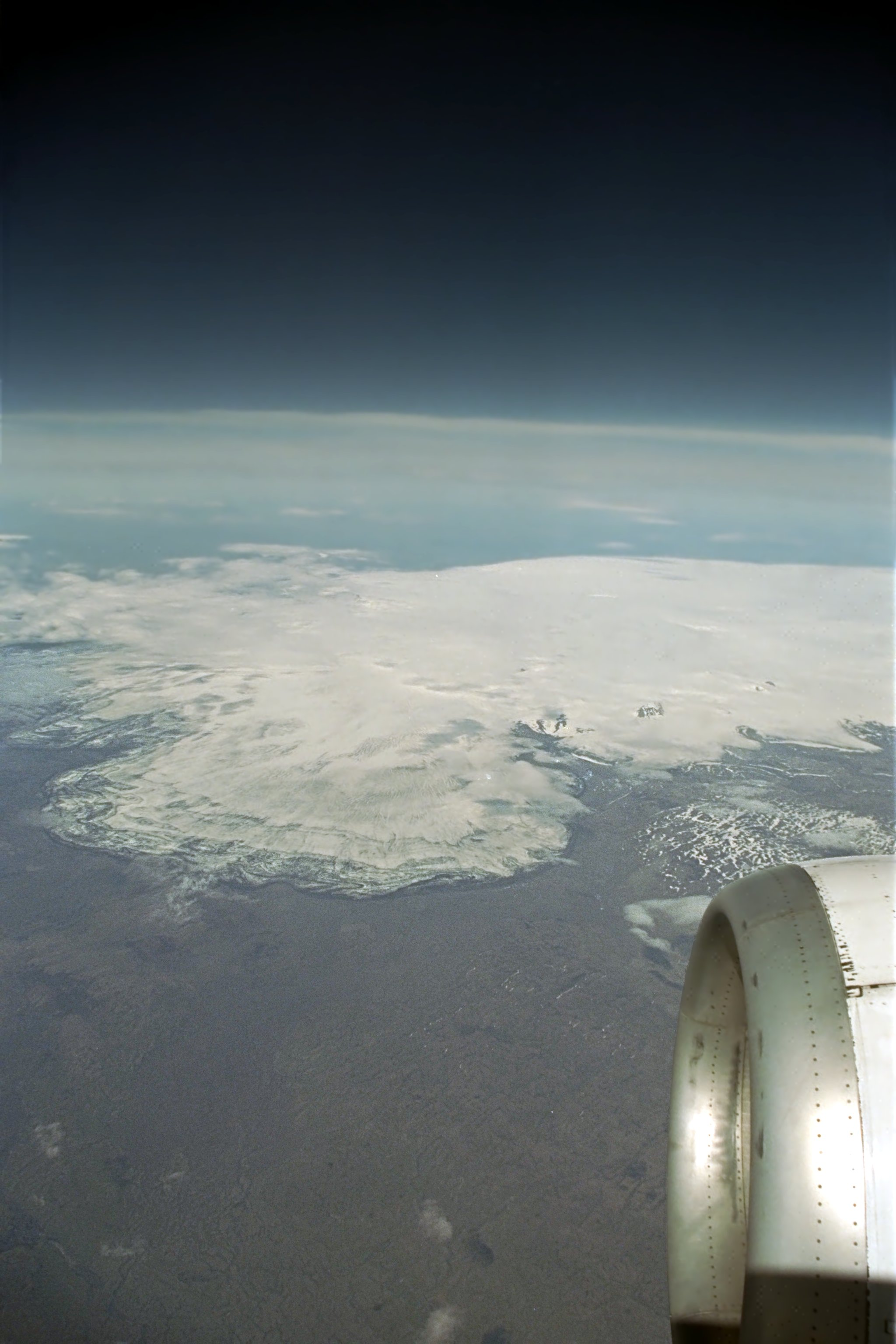 Flight over Vatnajökull with Síðujökull, Iceland Photo was taken using the following technique: Film: Fuji negativ Lens: 28-80 Filter: Body: Minolta 600si Support: Image with Information in English Bild mit Informationen auf Deutsch